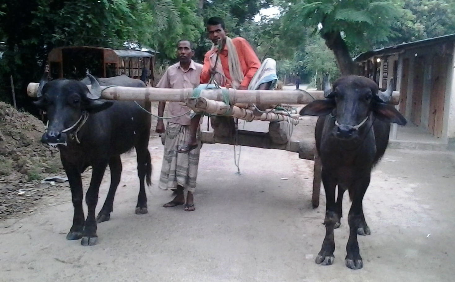 Cart pulled by buffalo, Kaloipur, chapainababagonj, Bangladesh